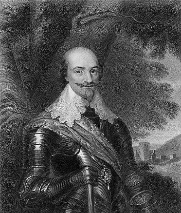 Robert Bertie, 1st Earl of Lindsey (1583-1642)